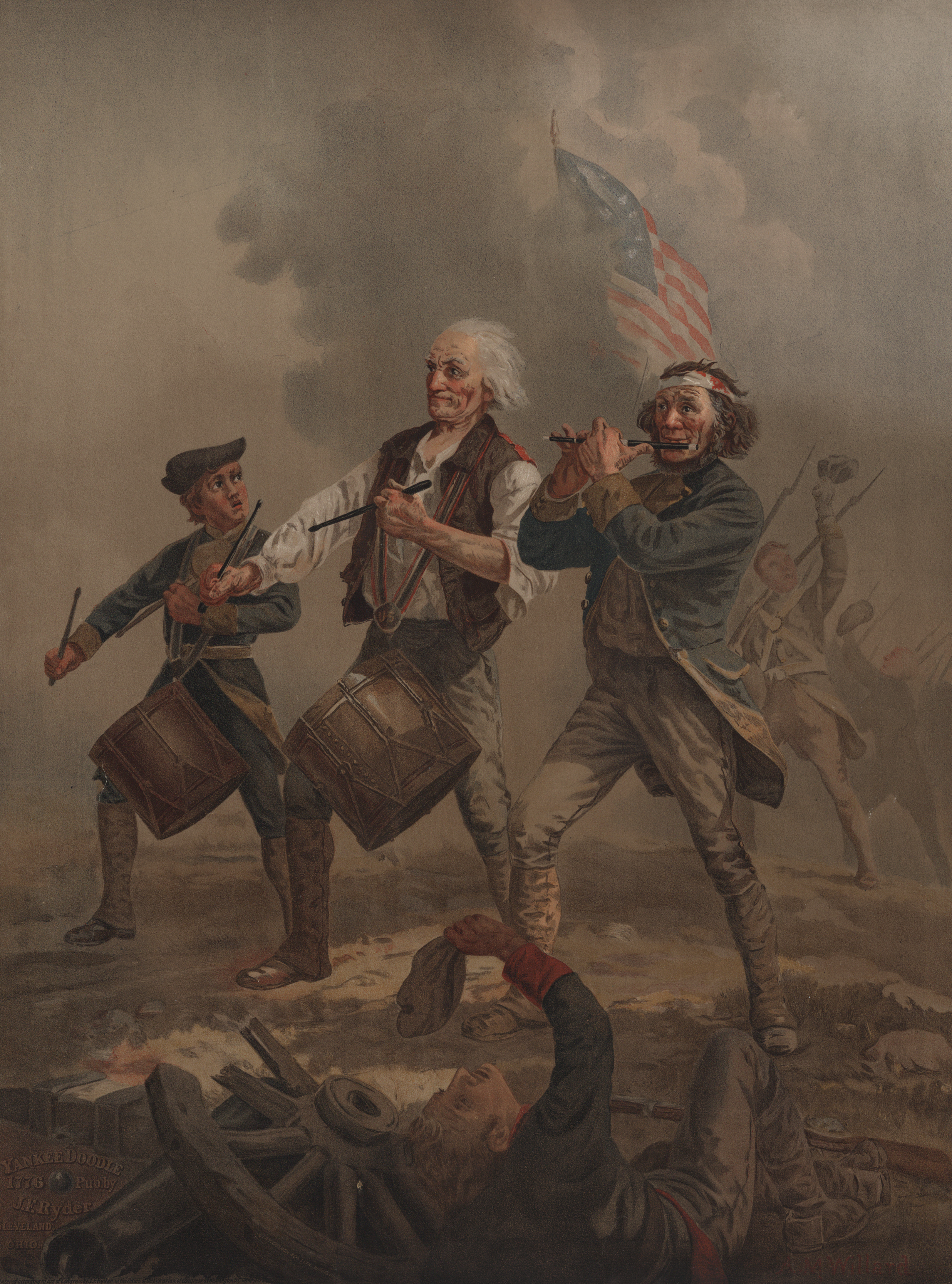 Print shows three patriots, two playing drums and one playing a fife, leading troops into battle.